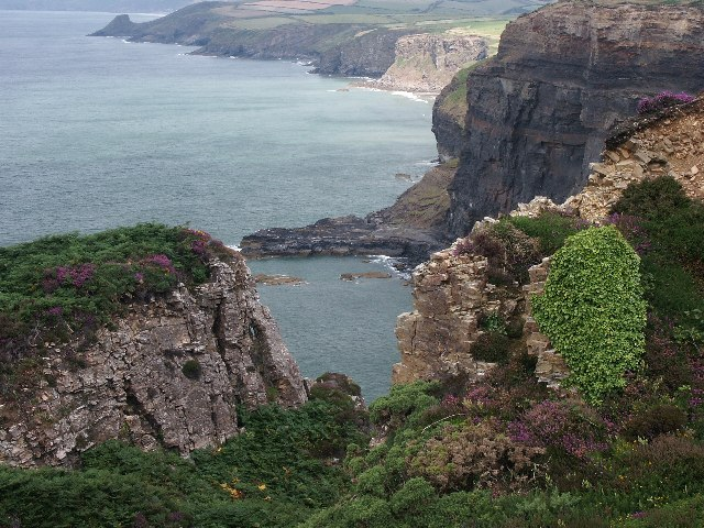 at Haroldston chins looking north.